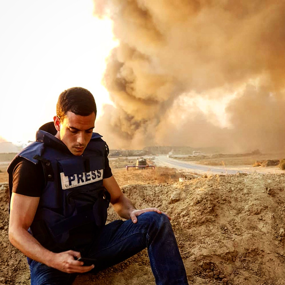 This photo shows Fox News Foreign Correspondent Trey Yingst reporting amid an active conflict zone.